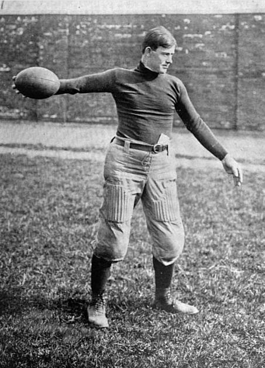 Photograph of University of Michigan football coach Fielding H. Yost